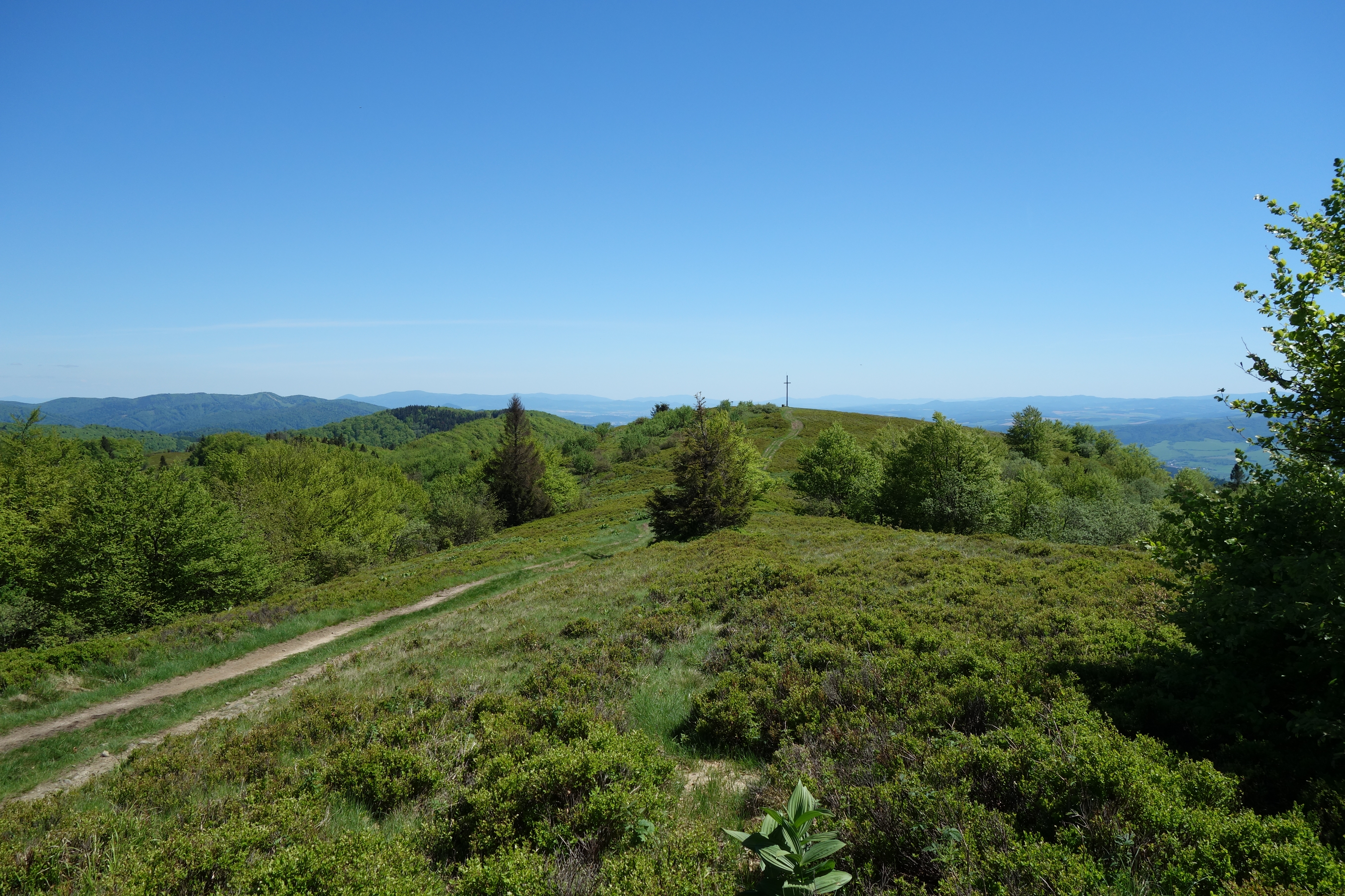 View from the slope of peak Minčol This is a photography of Natura 2000 protected area with ID SKUEV0331